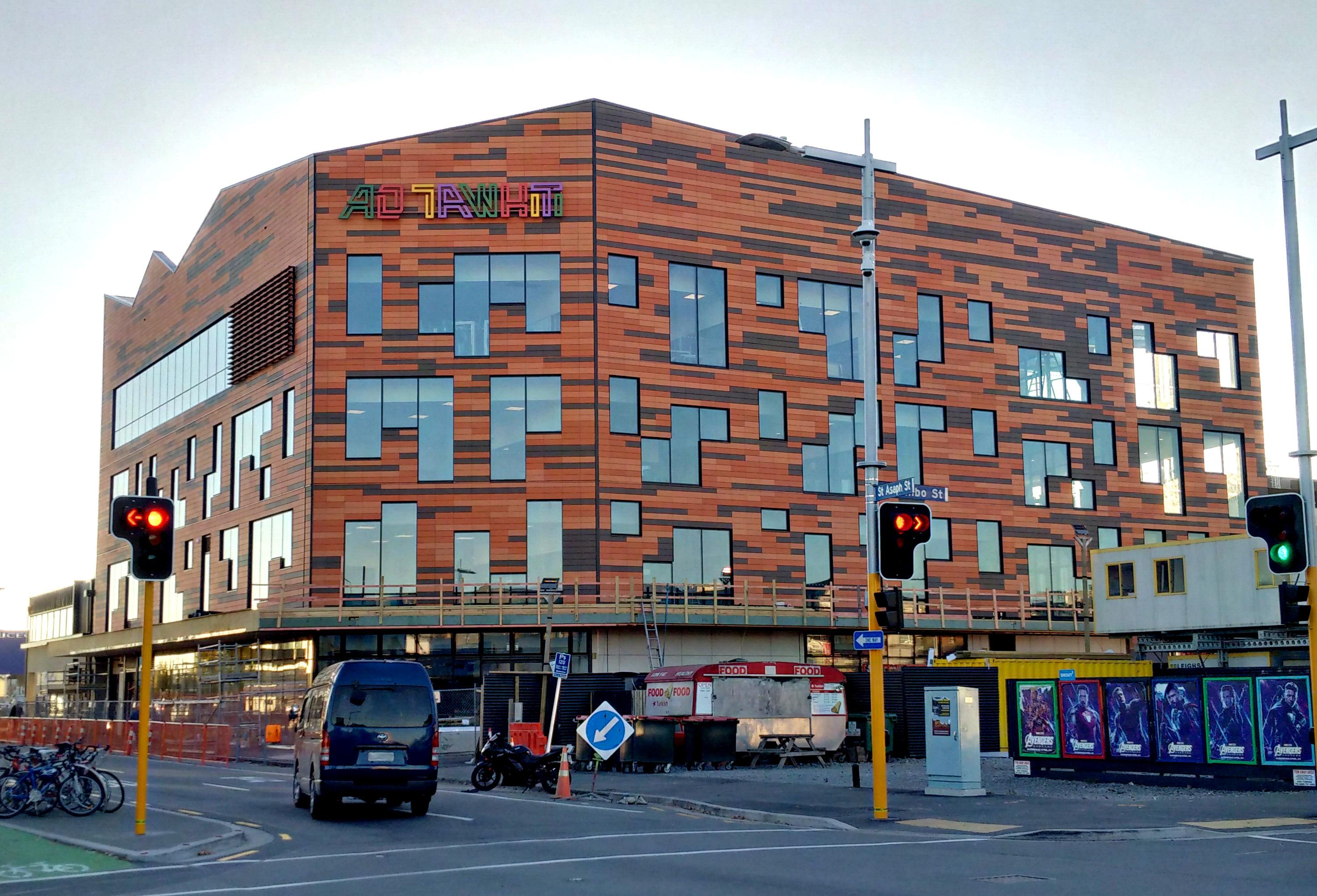 Ao Tawhiti Unlimited Discovery during the first week it was occupied by the school. Photo was taken at 4:40PM on Friday the 3rd of May 2019. Staff were occupying the building at this time but students would move in the following Monday. Construction had not fully finished in areas of the building.